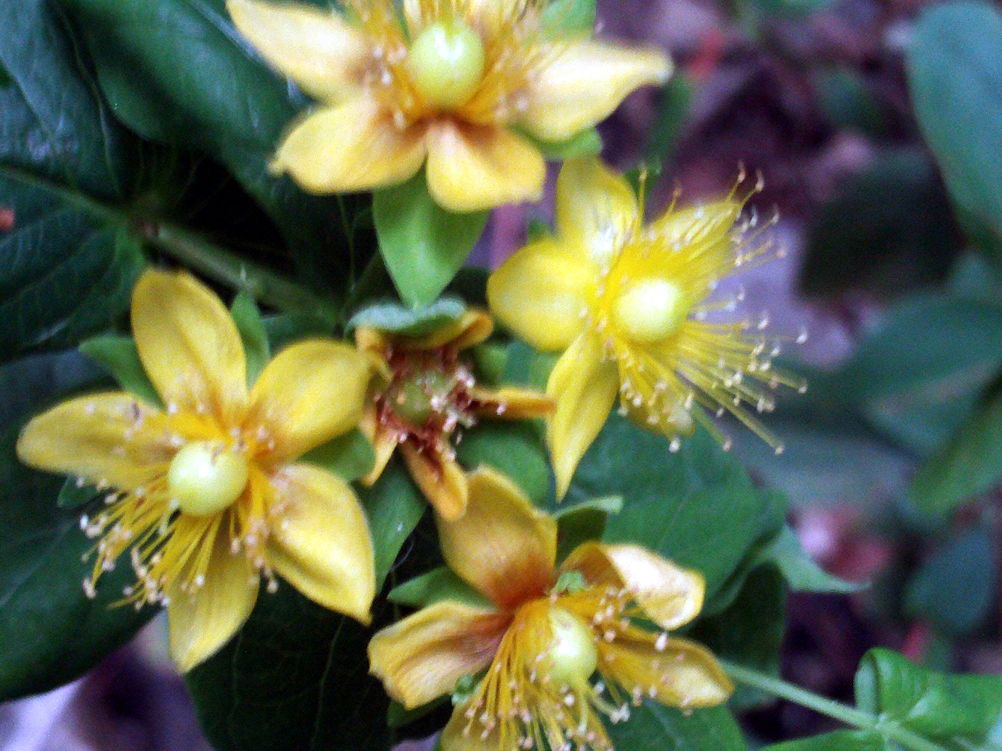 Hypericum androsaemum, flowers close up, Sierra Madrona, Spain